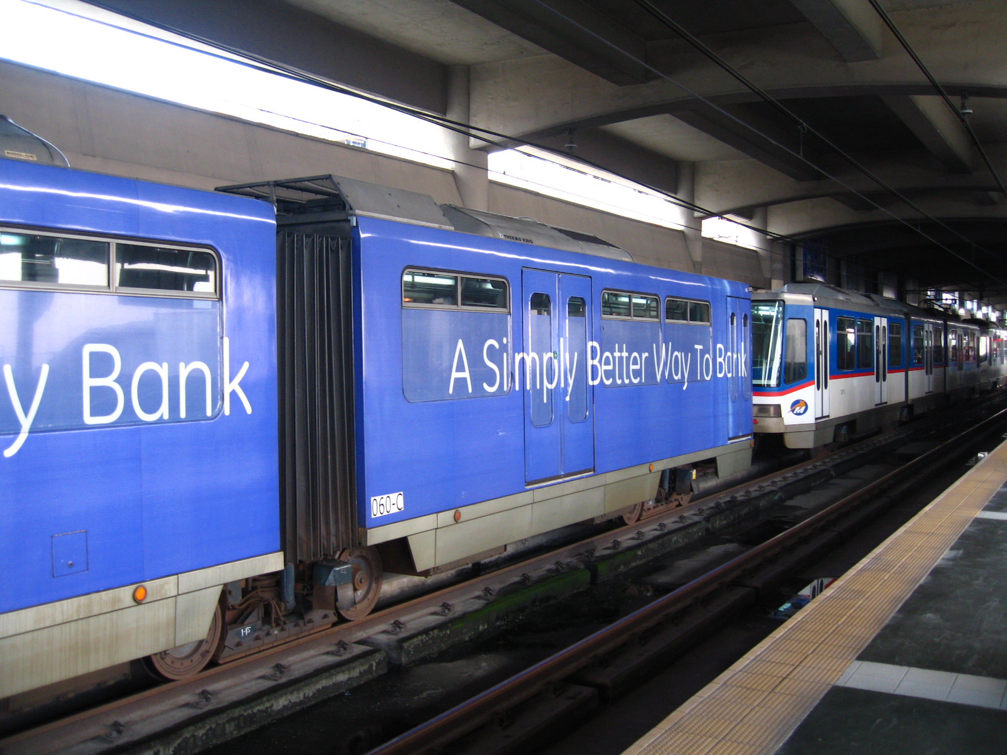 Manila MRT-3 Train with wrap advertising at North Avenue Station. Self-taken.